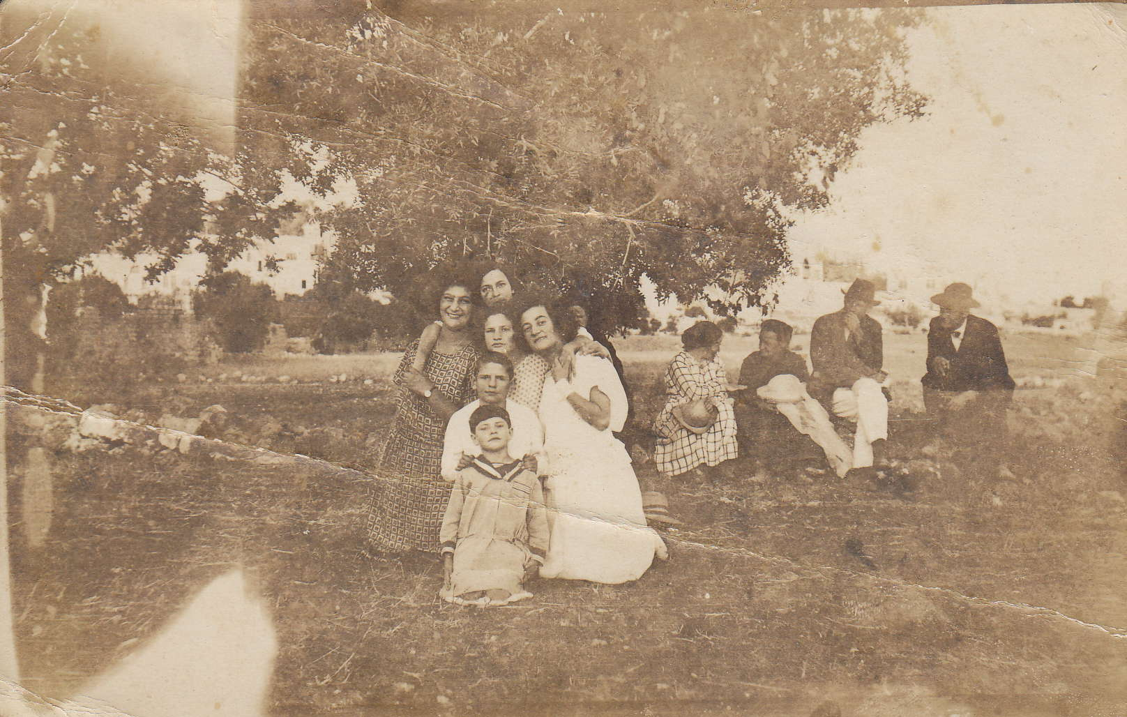 Israel Kaplan in Hebron